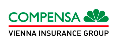 Compensa Vienna Insurance Group logo